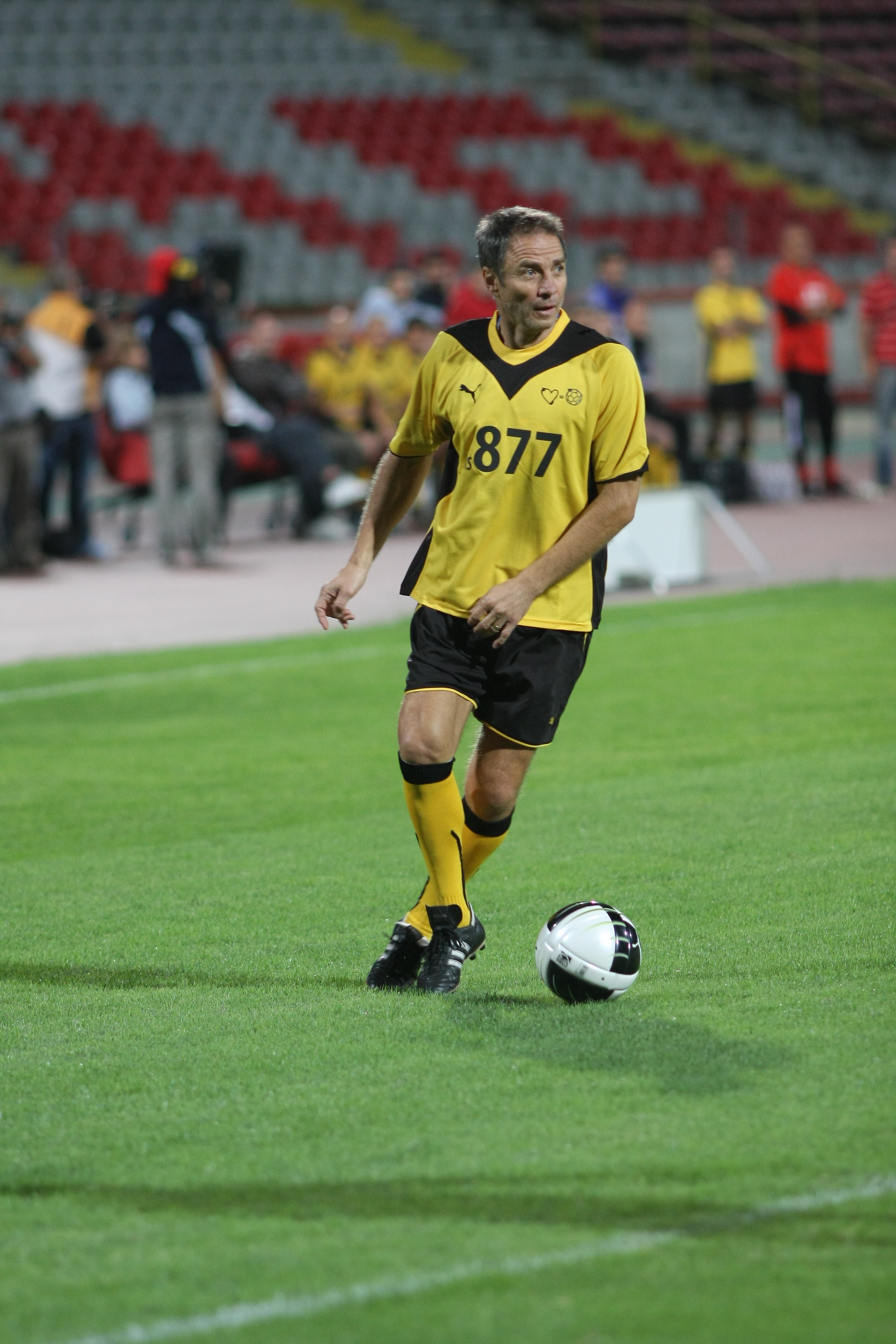 Tudorel Stoica, former cpatain of FC Steaua Bucharest.